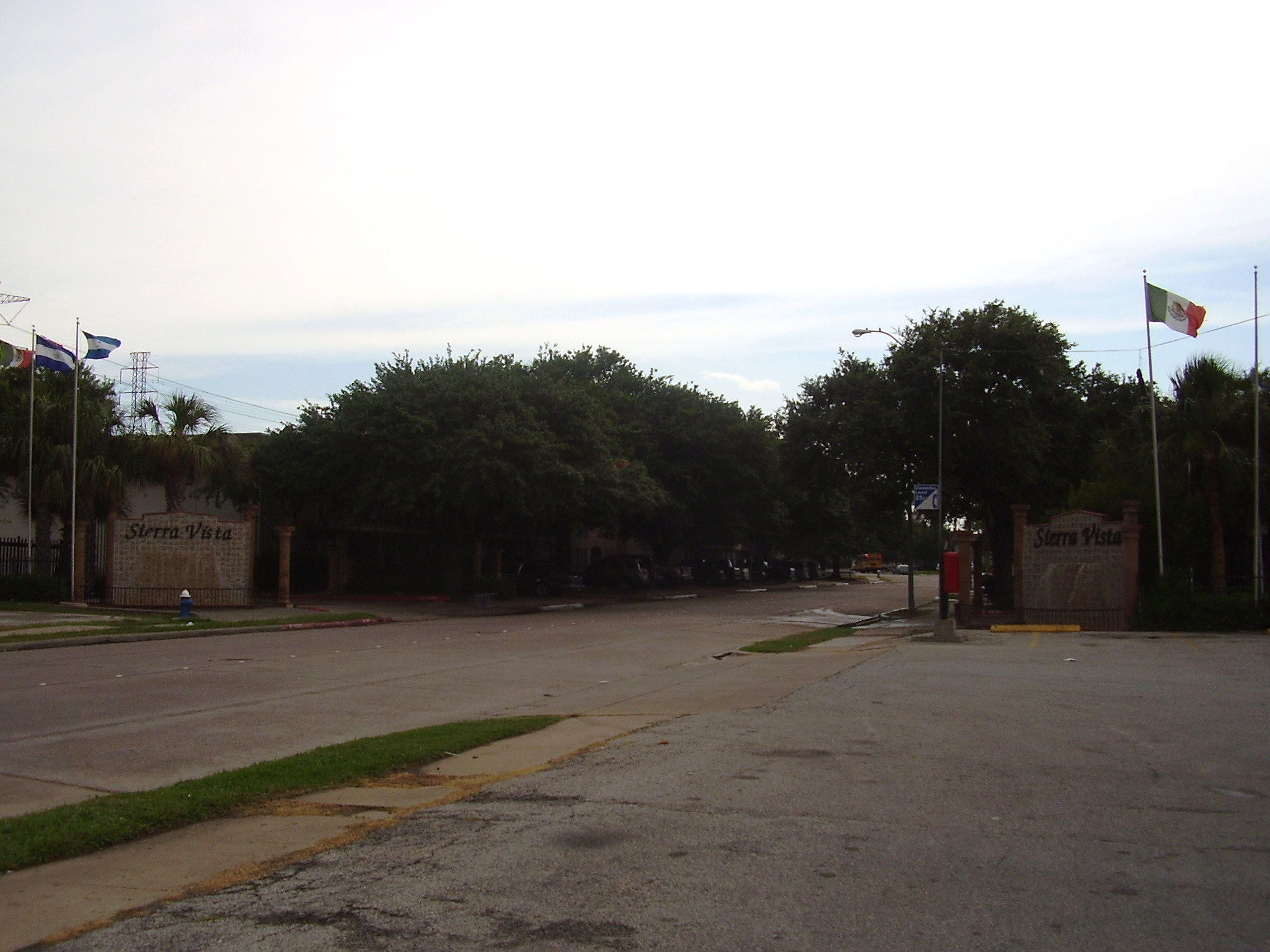 Sierra Vista Apartments - 5500 El Camino Del Rey Houston, TX, 77081 - Formerly housed the Amigos Por Vida Friends For Life Charter School